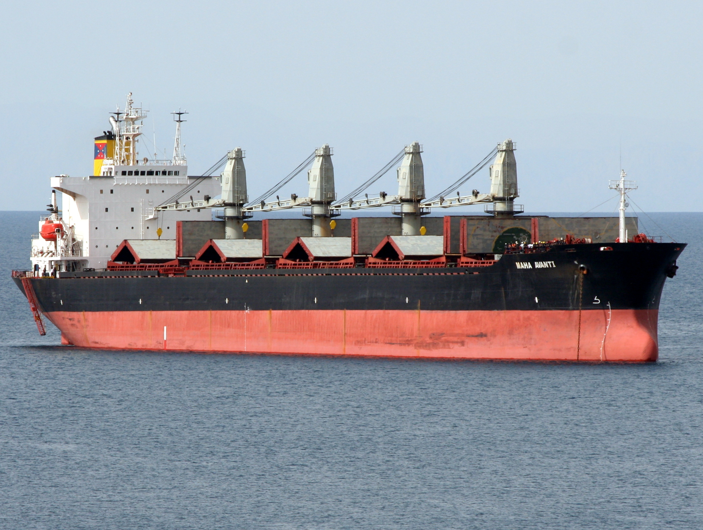 The bulk ship MV Maha Avanti in the Bay of Eilat. IMO 8913540